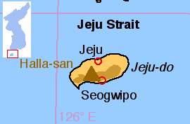 This map shows the location of Halla-san on Jeju island in South Korea.